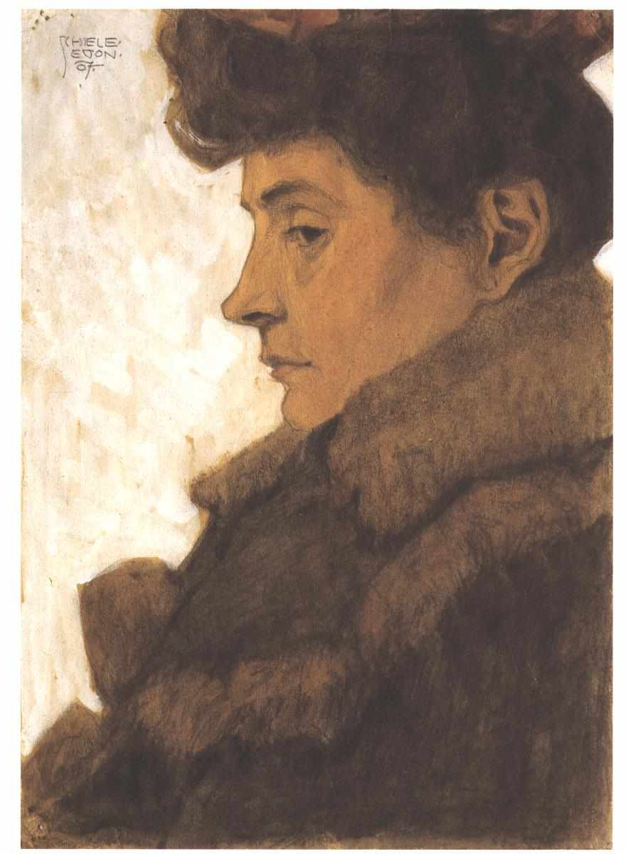 Portrait of Marie Schiele with fur